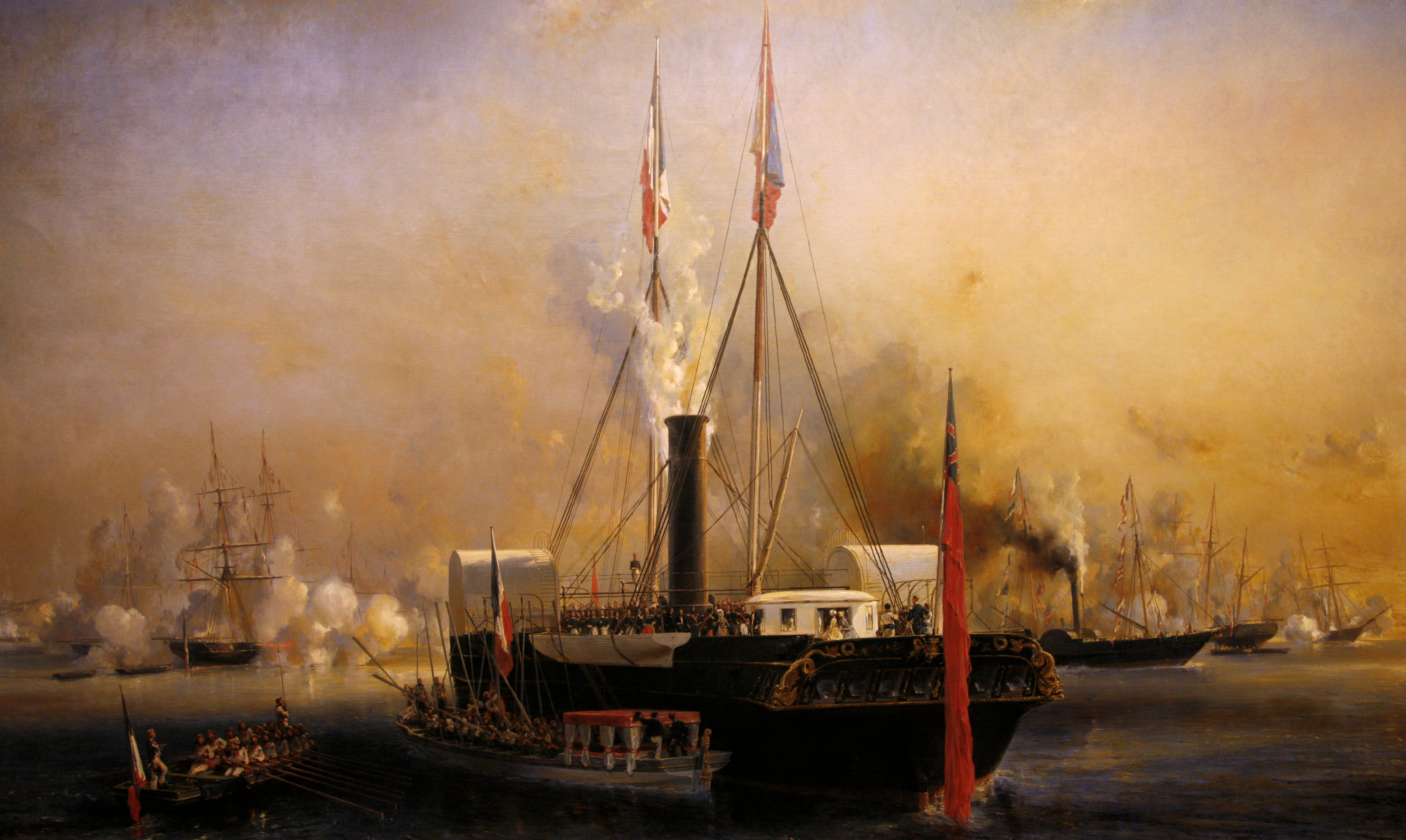 Eugène Isabey: Visite de la reine Victoria au Tréport, 2 septembre 1843 Artist Eugène Isabey (1803–1886) Alternative names legal name: Louis Gabriel Eugène IsabeyDescriptionFrench painter and lithographerDate of birth/death 22 July 1803 27 April 1886 Location of birth/death Paris MontévrainAuthority control : Q714341 VIAF: 44309397 ISNI: 0000 0001 0654 0479 ULAN: 500007382 LCCN: n81062526 WGA: ISABEY, Eugène WorldCat artist QS:P170,Q714341Title Visite de la reine Victoria au Tréport, 2 septembre 1843Description Queen Victoria's visit at Le Tréport, september 1843Collection Musée national de la Marine Native nameMusée national de la MarineLocationParisCoordinates48° 51′ 43″ N, 2° 17′ 15″ E Established1827Web page control : Q1286709 VIAF: 19144648200974718522 ISNI: 0000 0001 2259 2914 LCCN: n50055356 Museofile: M5026 WorldCat institution QS:P195,Q1286709Accession number 9 OA 57Source/Photographer Med Queen Victoria's visit at Le Tréport, september 1843